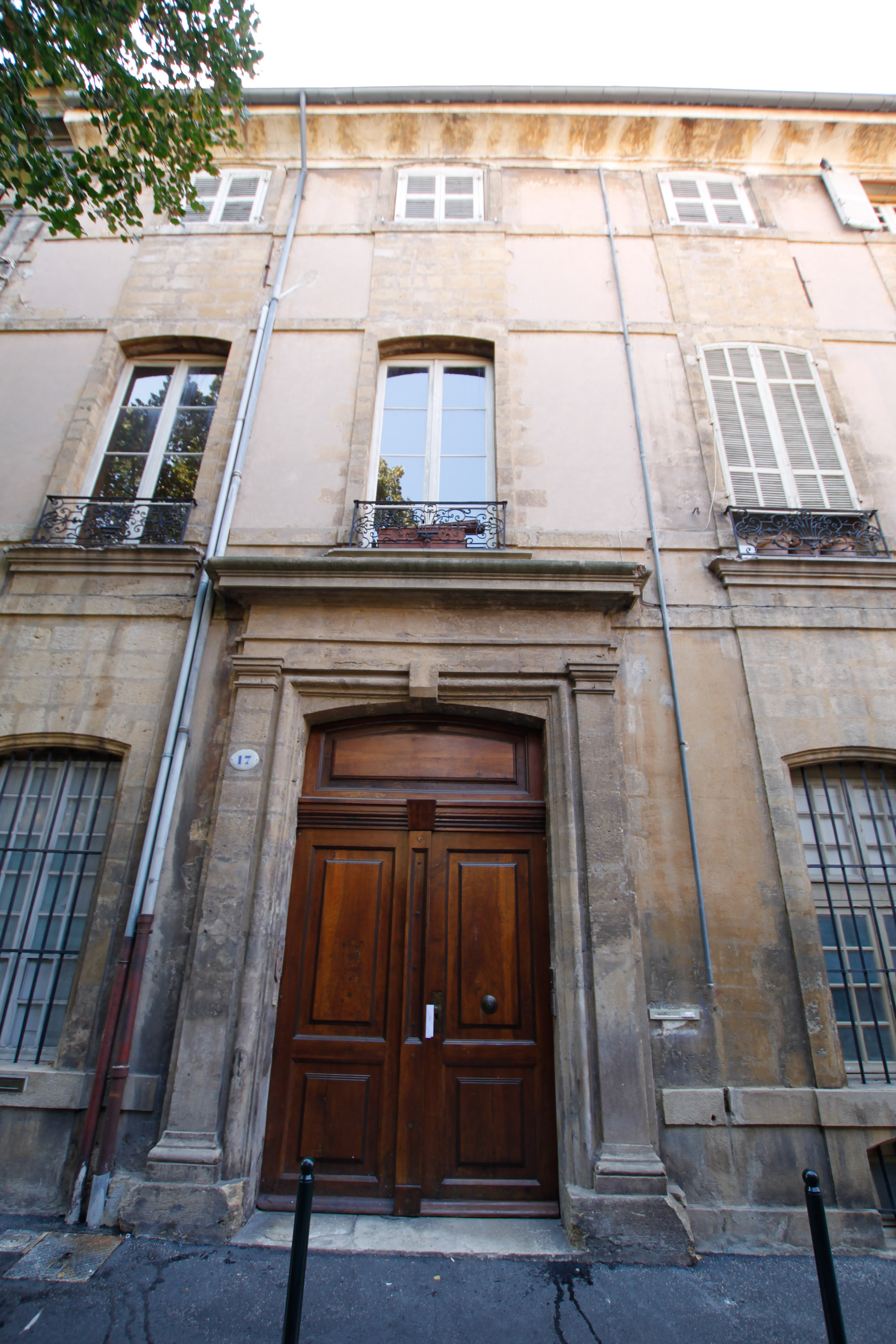 Wooden door, Hôtel de Simiane, 17 rue Goyrand, Aix-en-Provence, France.